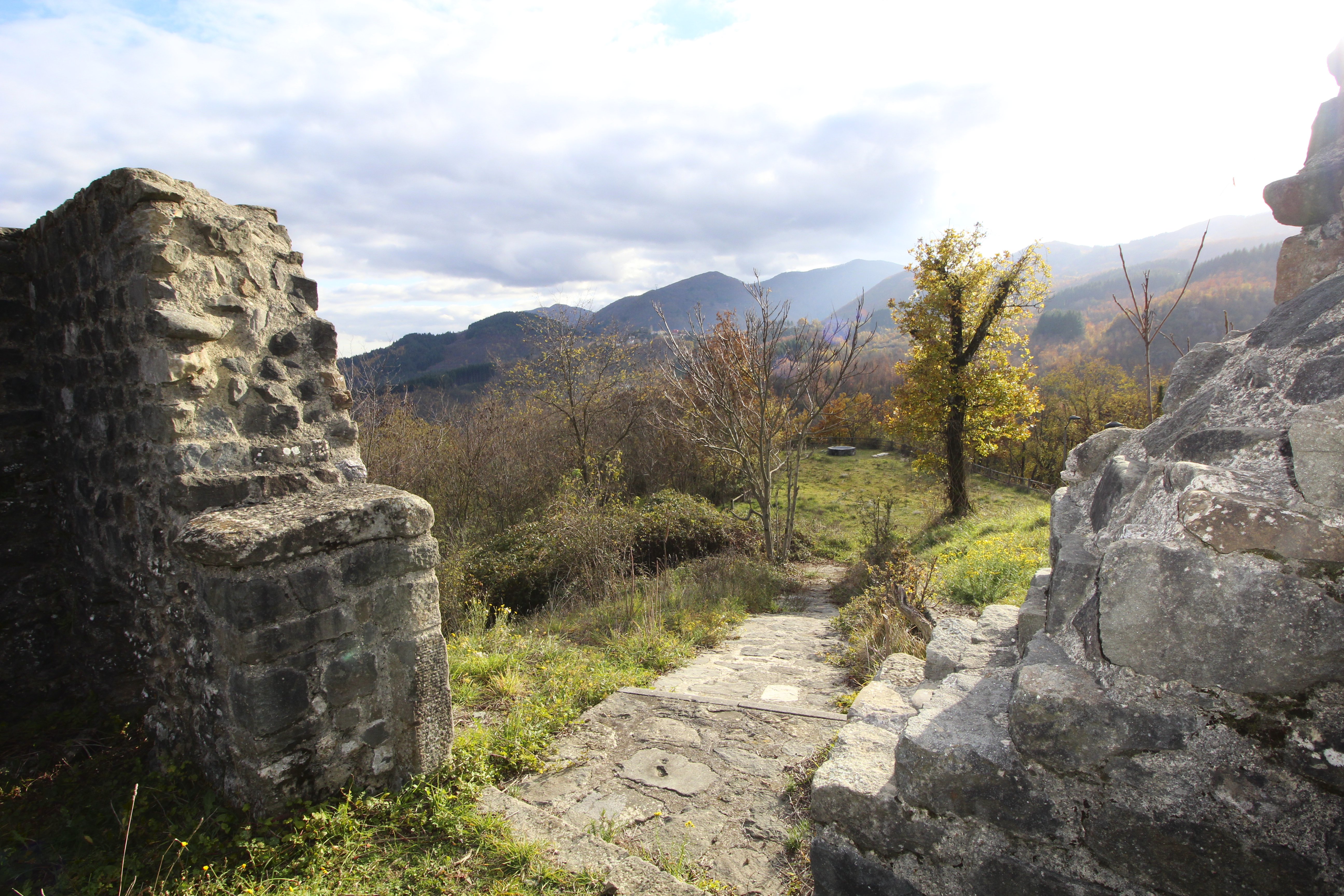 Castle ruin Rocca di Castelvecchio, Piazza al Serchio, Garfagnana, Province of Lucca, Tuscany, Italy